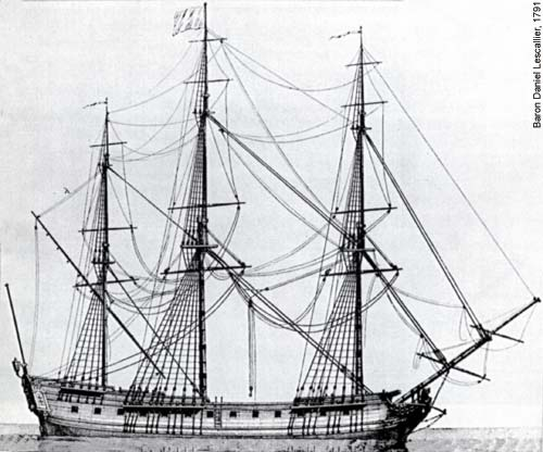 Drawing of the frigate Le Machault, scuttled by her crew at the Battle of Restigouche (1760).